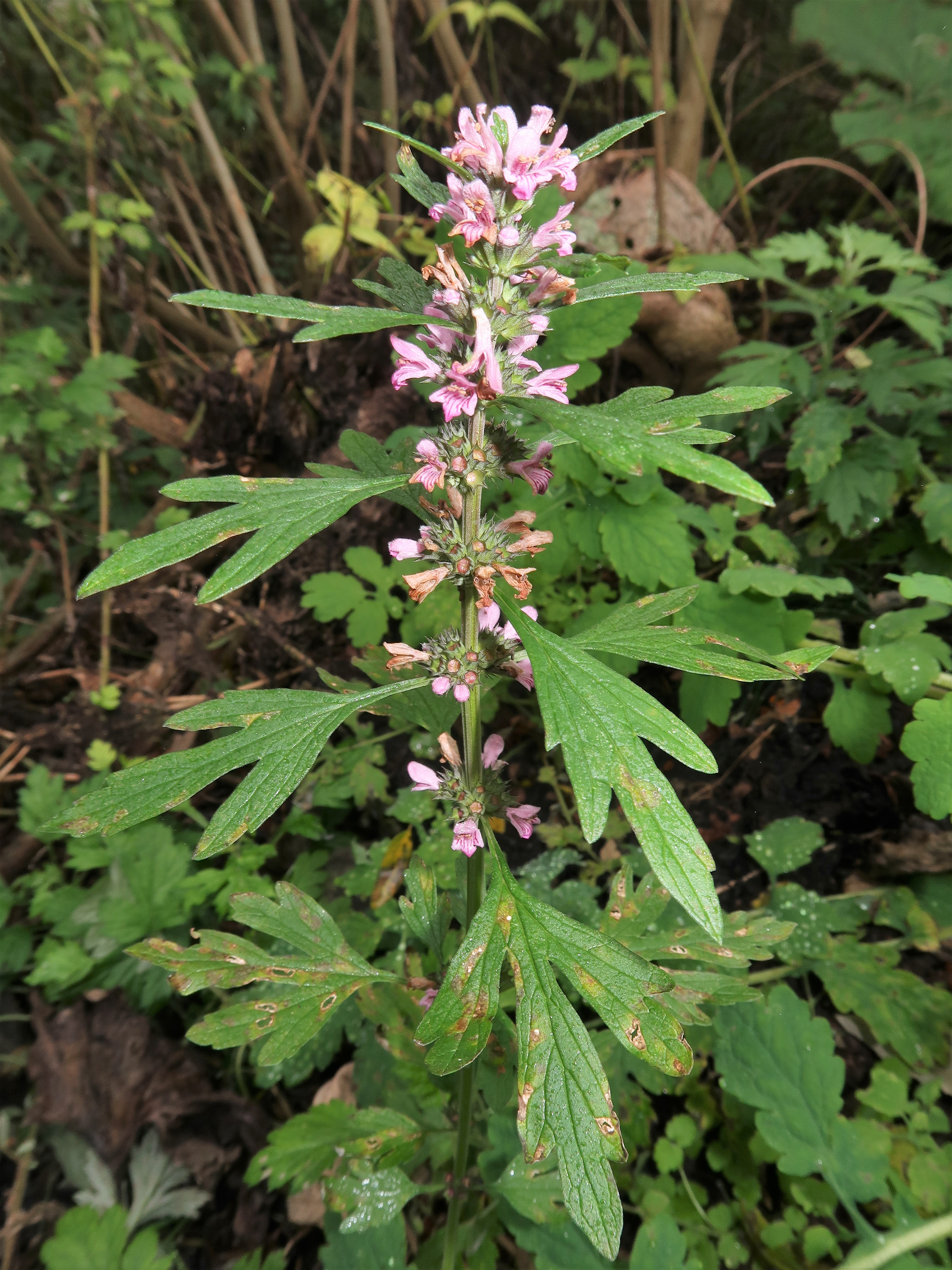 Leonurus japonicus, Sanpachi area, Aomori pref., Japan